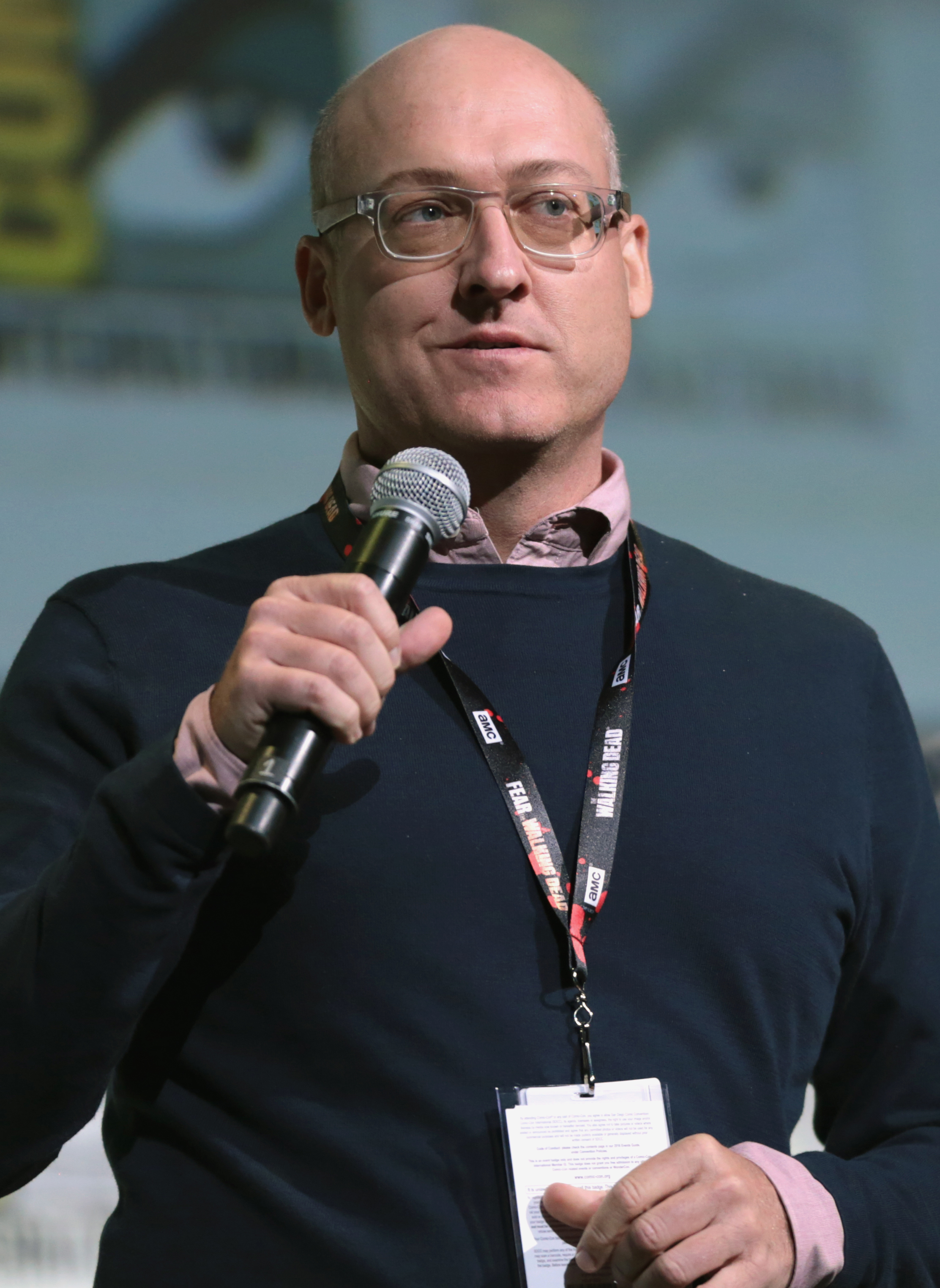 Mike Mitchell speaking at the 2016 San Diego Comic-Con International in San Diego, California.